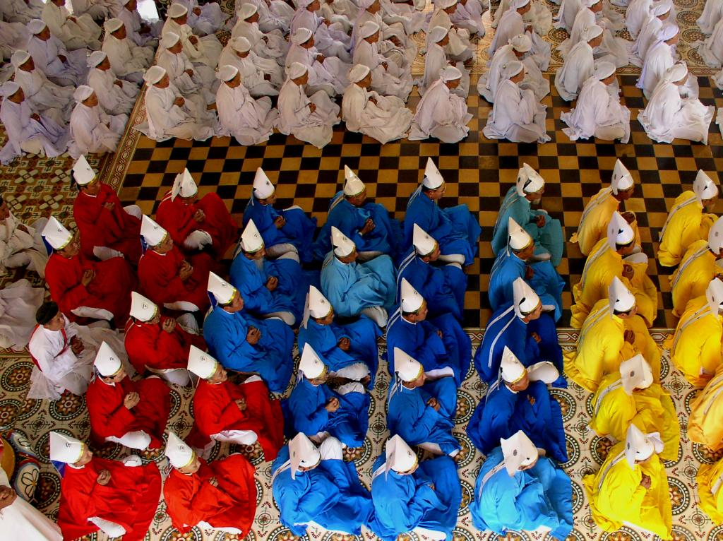 Cao Dai prayers.